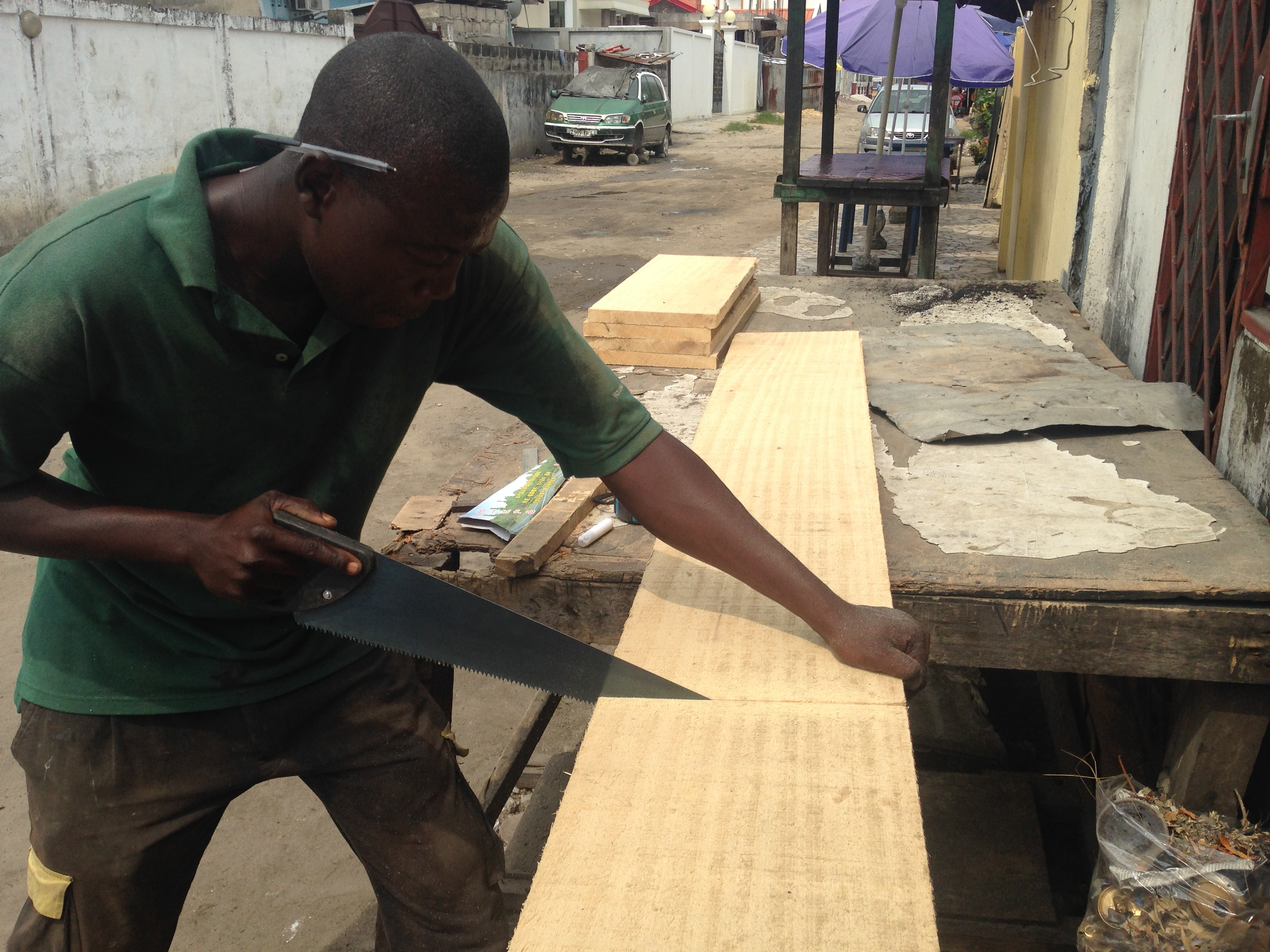 I went to buy some wood for a bookshelf and instead of cutting the wood by hand myself I decided to pay to have them cut the wood with the "machine." Little did I know that their machine was a person with a hand saw. This is an image of "African people at work" from Congo